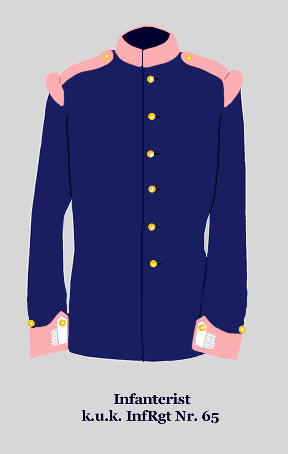 Private of the Austria-Hungarian Infantry (Hungarian style Tunic with light-red regimental identification color and yellow buttons)